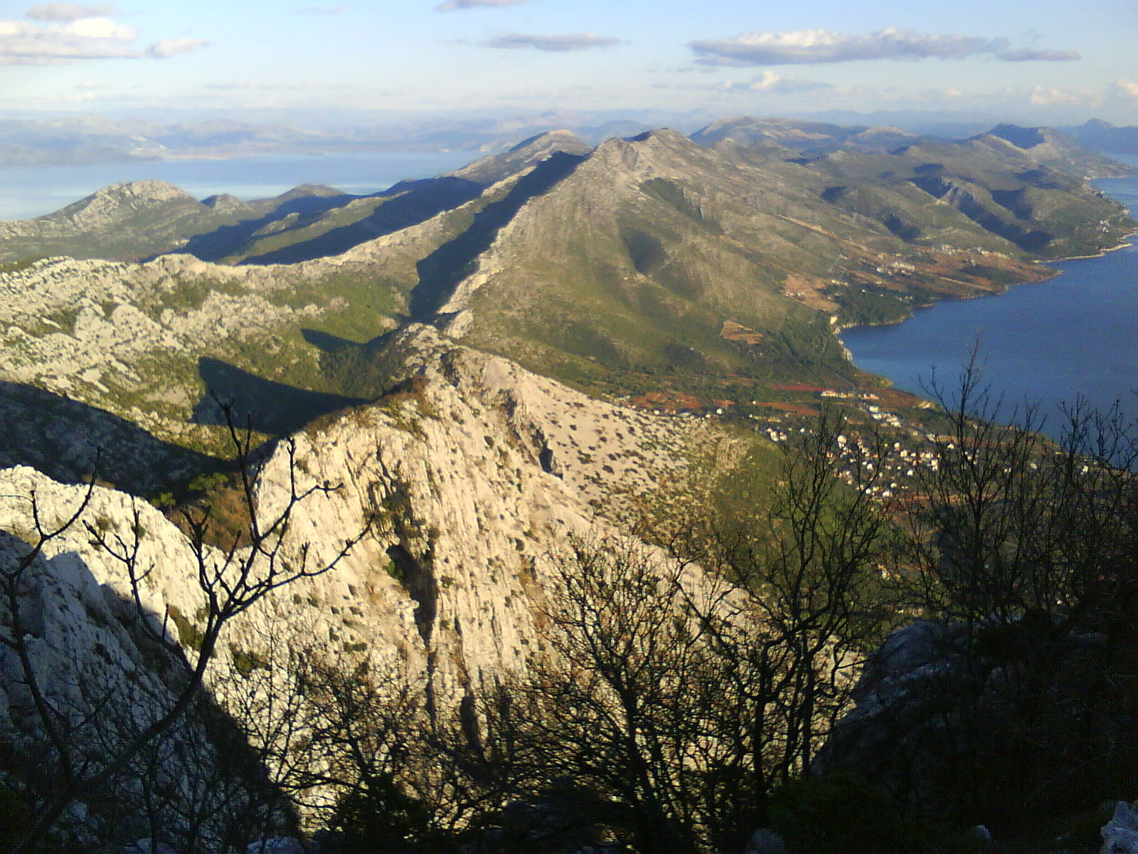 View from St.Elijah Mountain towards east,Pelješac